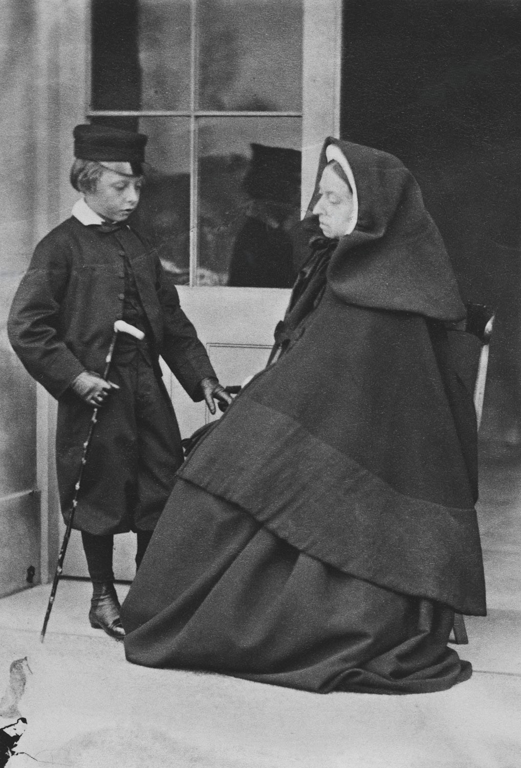 Queen Victoria and Prince Leopold